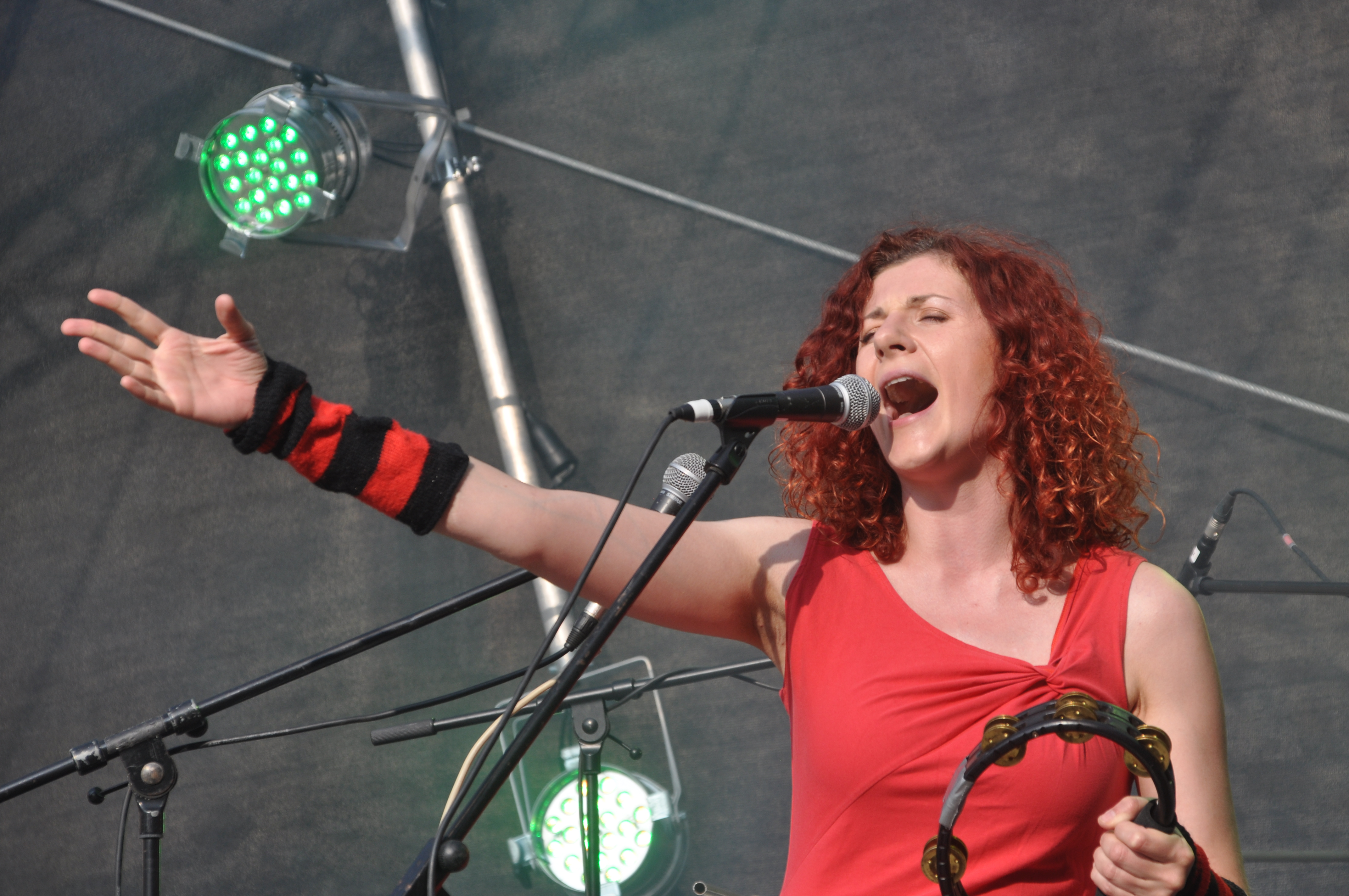 Iva Nova (Russia) , appearence at the 11th world music festival "Horizonte" 2013 at the fortress Ehrenbreitstein, Koblenz, Germany